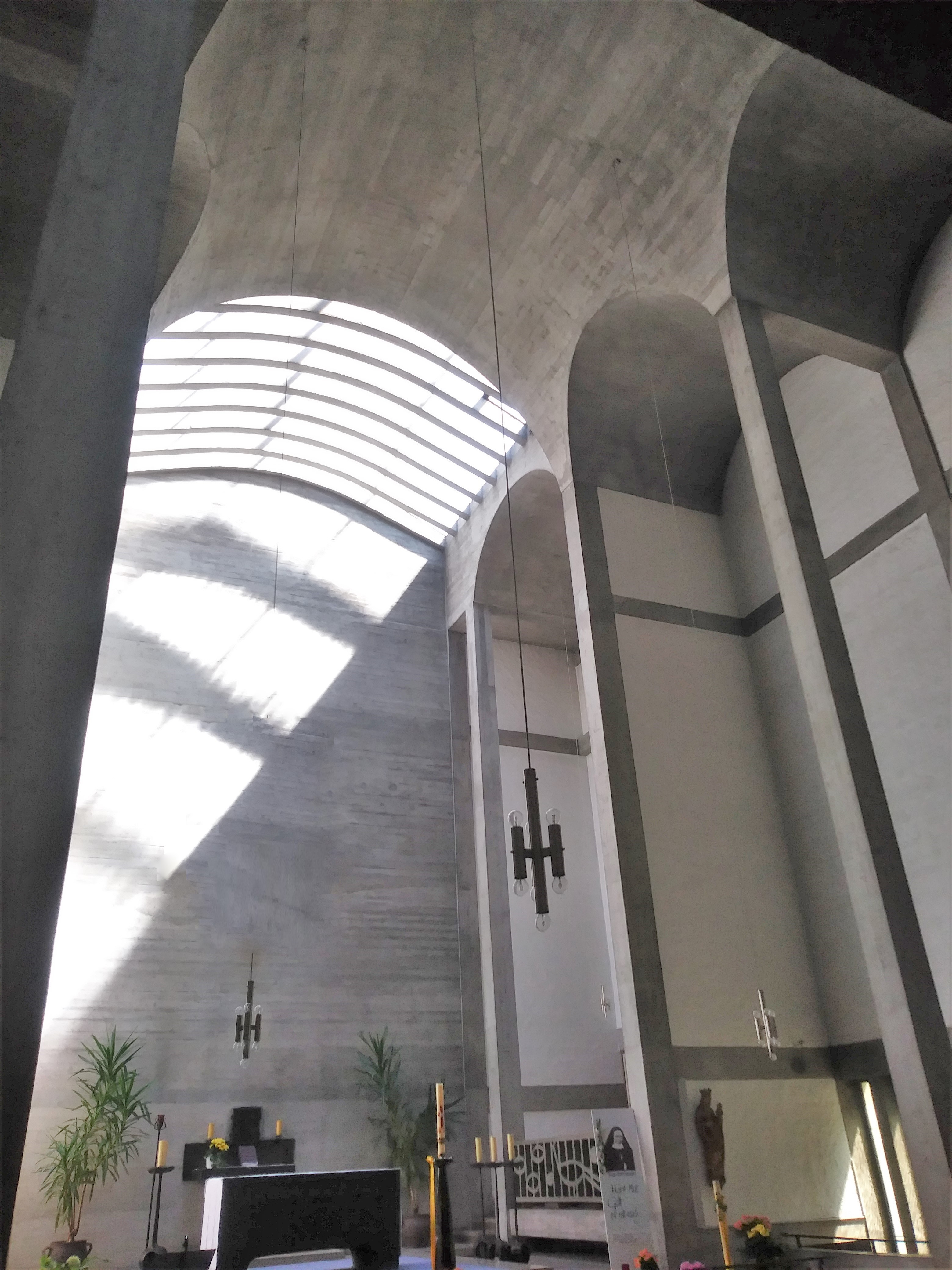 Herz-Jesu-Klosterkirche (München-Isarvorstadt)